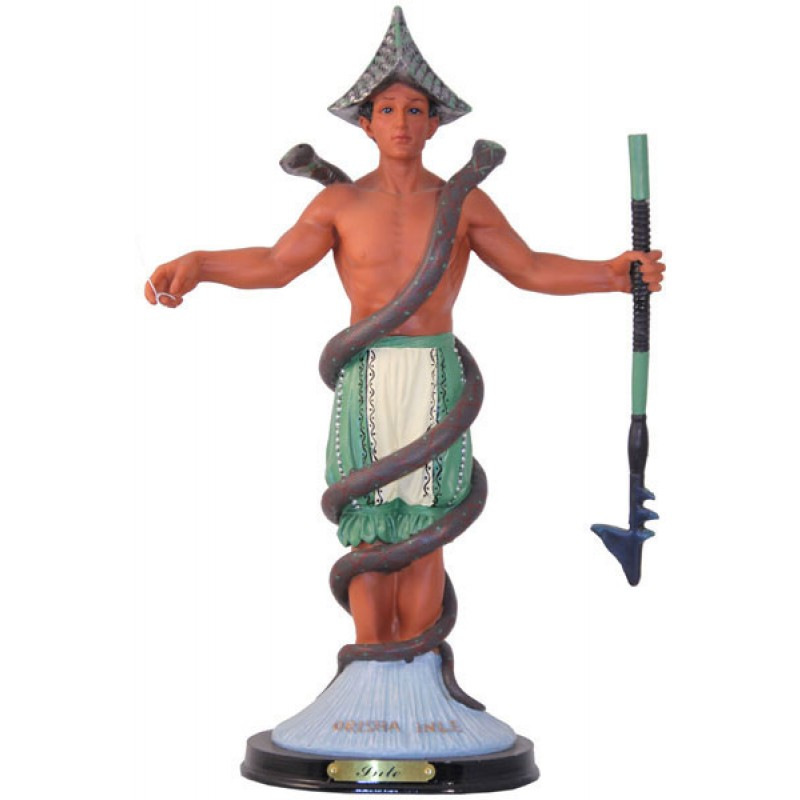 santeria5667